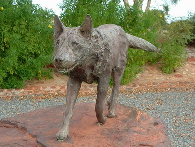 The Famous Red Dog Statue located just on the outskirts of Dampier, W.A